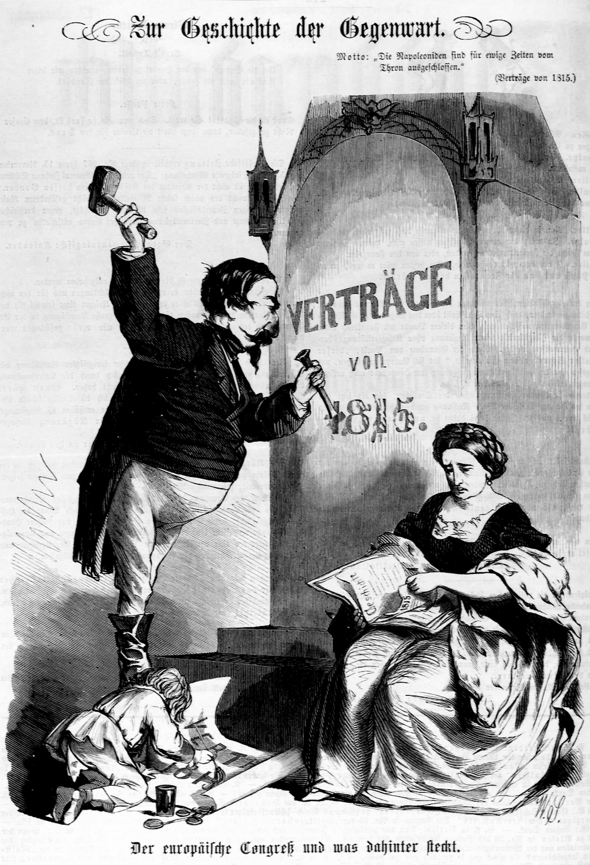 Karikatur, Kladderadatsch. Verträge von 1815